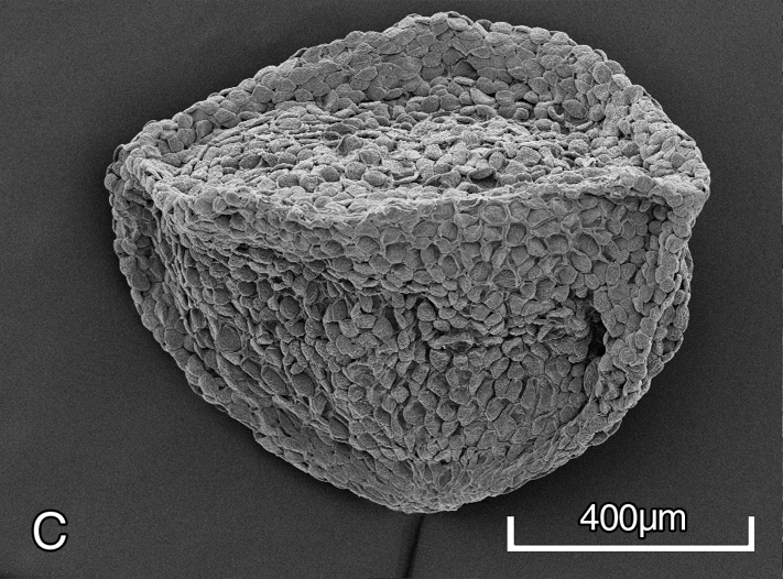 Seed of Kadua nukuhivensis, Perlman 15029 (PTBG)